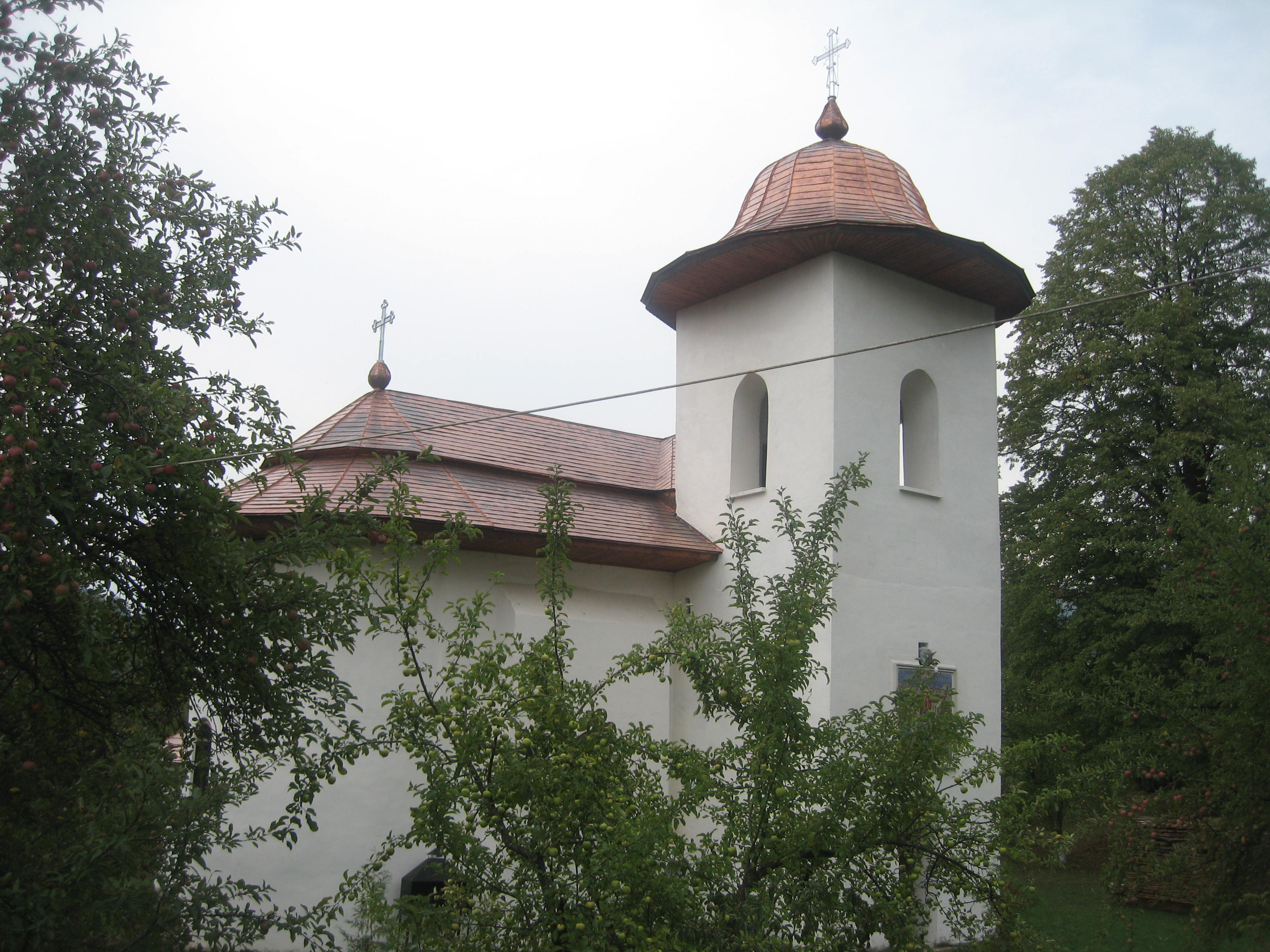 The Church from Ceahlău, Neamţ County, historical monument NT-II-m-B-10608.01